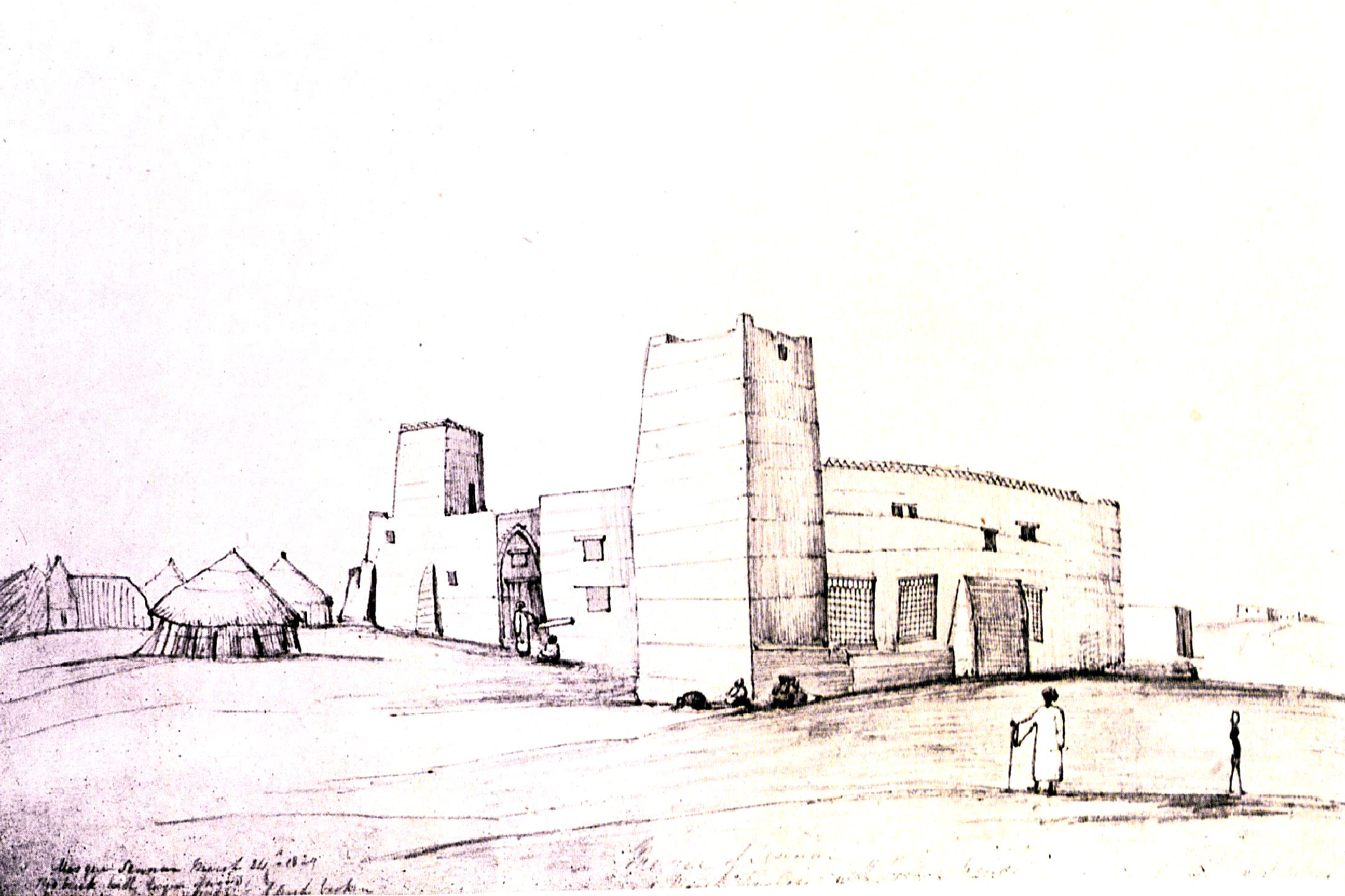 The Mosque of Sennar as seen by Lord Prudhoe.